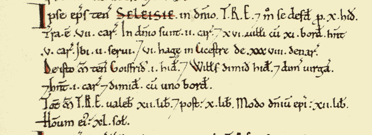 This is an extract from the Domesday Book of 1086, showing the entry for what is now Selsey in West Sussex, England.